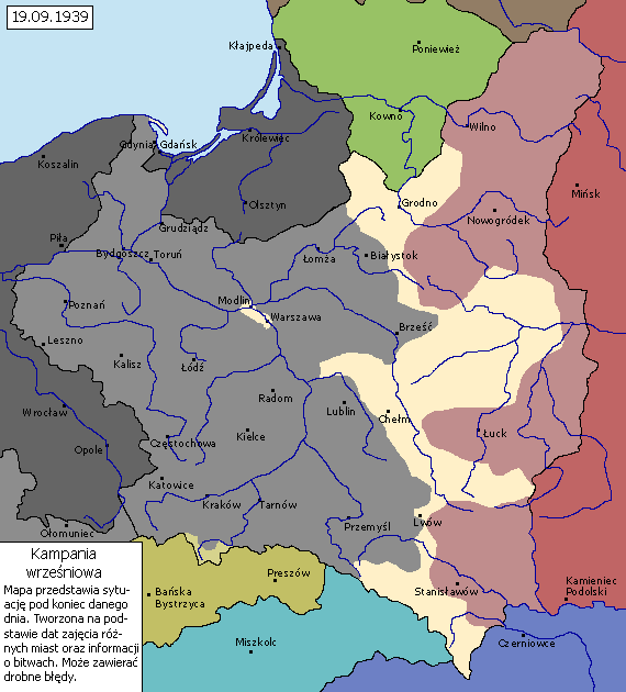 Map of Invasion of Poland in this certain day.